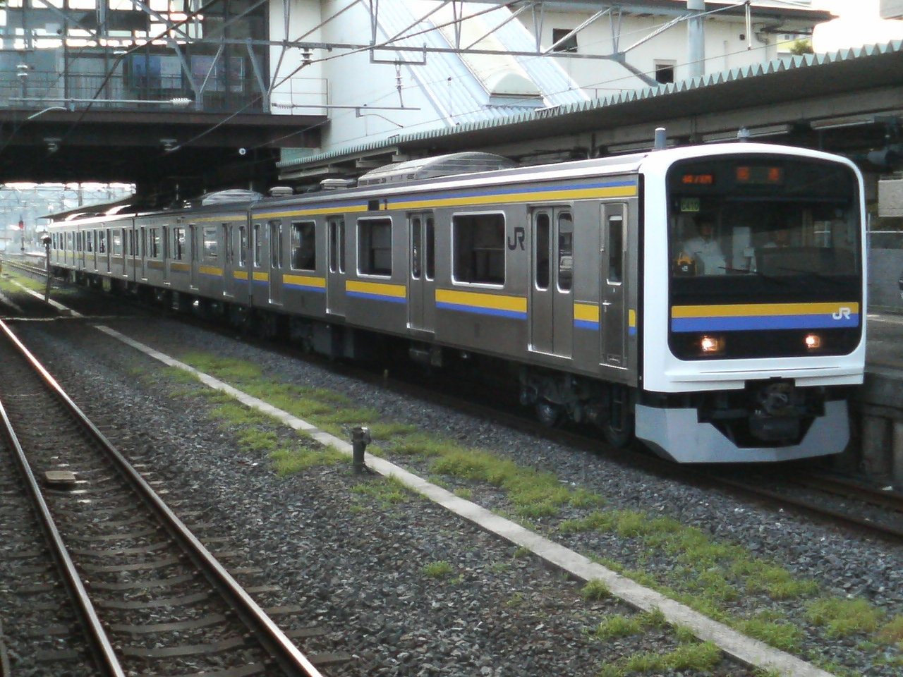 JR East 209-2100 series EMU (set C410) at Sakura Station (Sōbu Main Line)